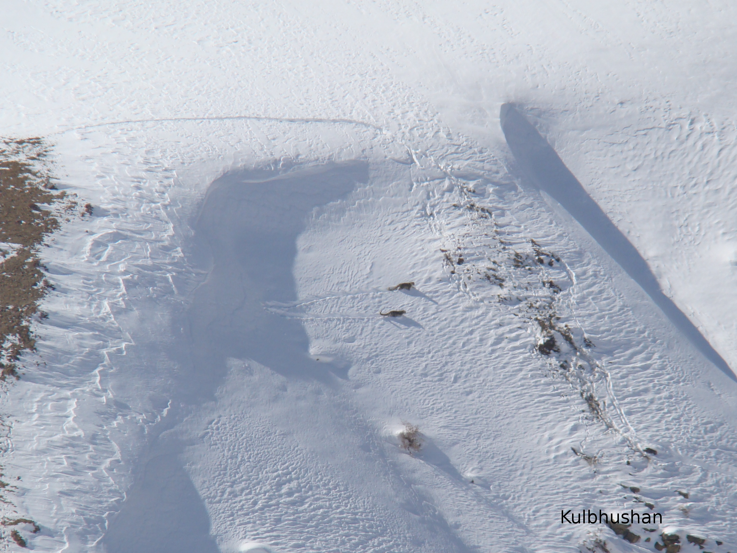 Two snow leopards in Spiti